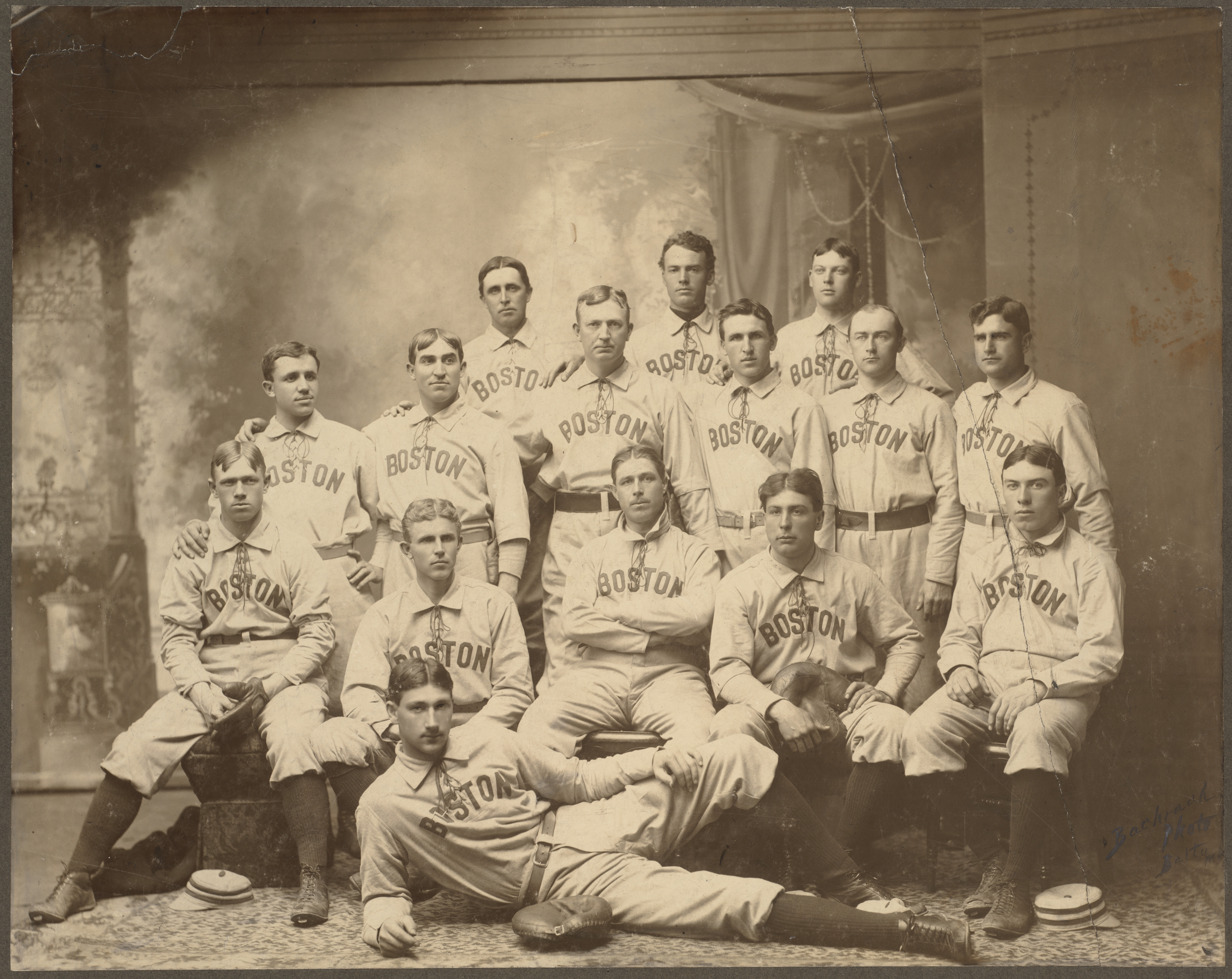 Team picture of the the first Boston American League team taken in 1901. Top row, Left to right: Kit McKenna, Buck Freeman,Charlie Hemphill. Second row: Fred Parent, George Cuppy, Cy Young, Abrose Kane, Tommy Dowd, Chick Stahl. Third row, seated: Hobe Ferris, Lou Criger, catcher, Jimmie Collins, Ossie Schreckengost, Fred Mitchell. Front: Larry McLean, first baseman. Taken in the Bachrach Studio in Baltimore.